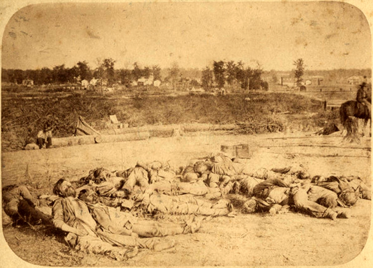 Confederate soldiers killed during the Battle of Corinth, Mississippi, which took place October 3 and 4, 1862, by George Washington Armstead (1835–1912), a photographer from Columbus, Ohio, published in Miller's The Photographic History of the Civil War with a caption: "Before the Sod Hit Them", Alabama Department of Archives and History